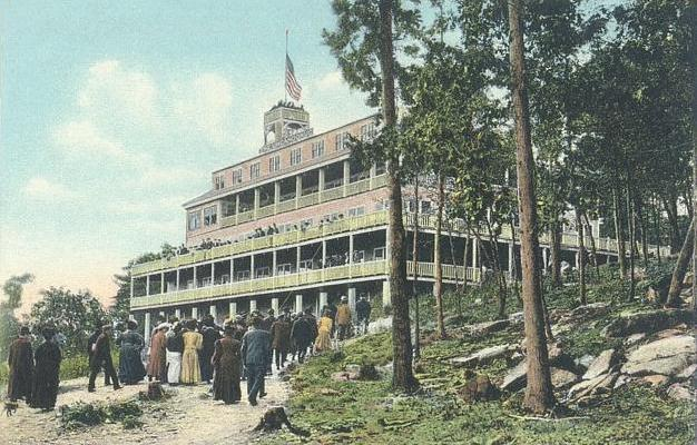 Uncanoonuc Hotel, Uncanoonuc Mountain (South Peak), Goffstown, NH; from a 1910 postcard. Built in 1907, it burned in 1923.